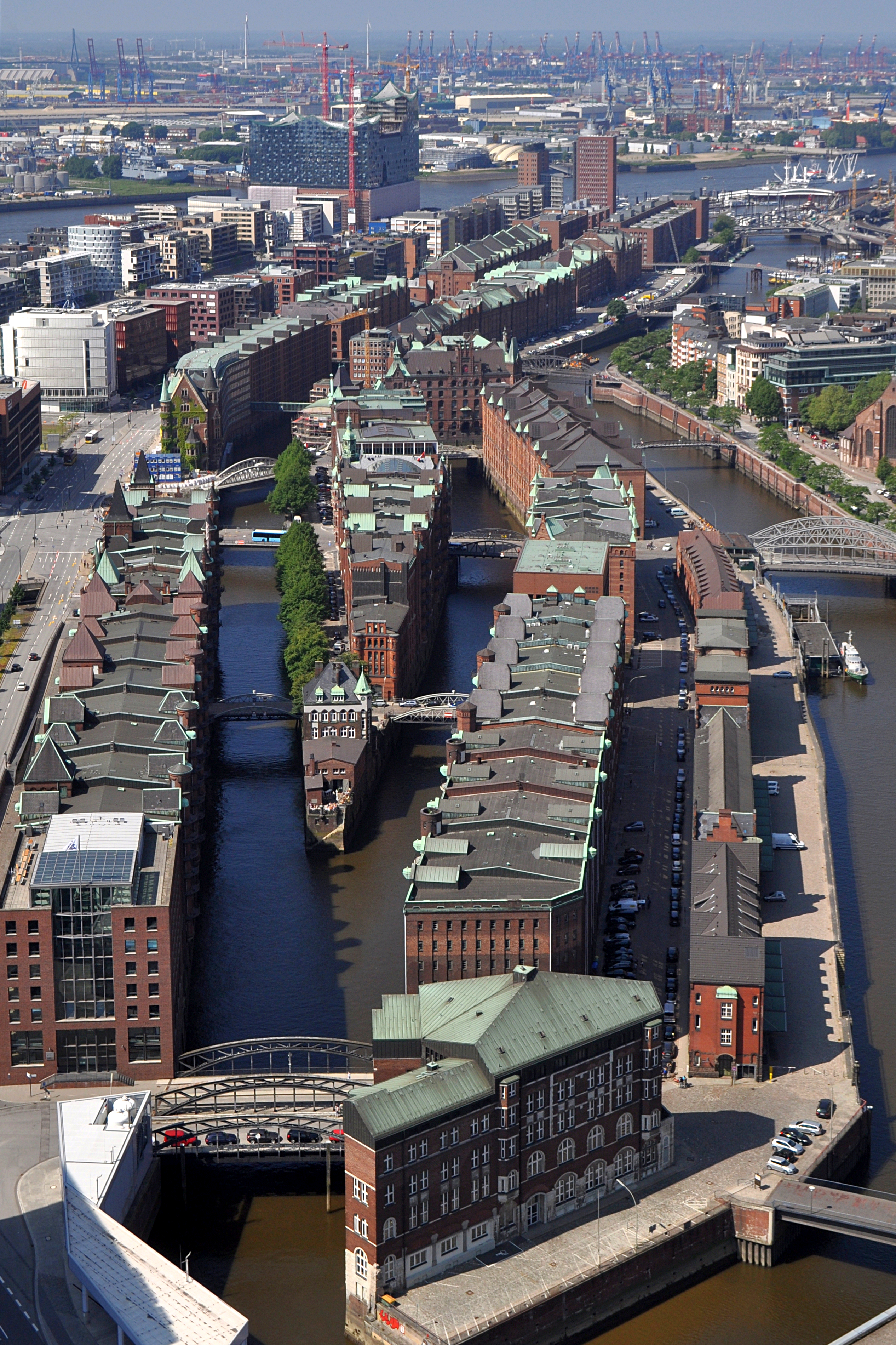 Hamburg's Speicherstadt (meaning: "warehouse city") ist the world's largest warehouse complex. It's grounded on oak foundations, built in 1888. Since 1991 it is declared a historic monument, and since 2015 an UNESCO World Heritage Site. This place is a UNESCO World Heritage Site, listed as Speicherstadt and Kontorhaus District with Chilehaus. This is a photograph of an architectural monument. 11867 11886 11975-11977 12072-12086 12091 12189-12200 12276-12279 12333-12336 12415-12439-12475 12477-12489 12498-12501 12879-12886 13378 13725-13729 14151 14794 14863-14864 14879-14896 14969-14978